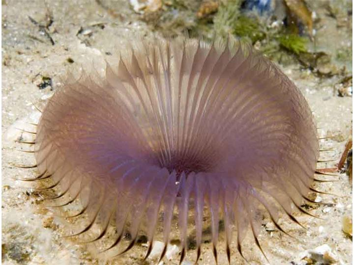 Myxicola infundibulum feeding tentacles